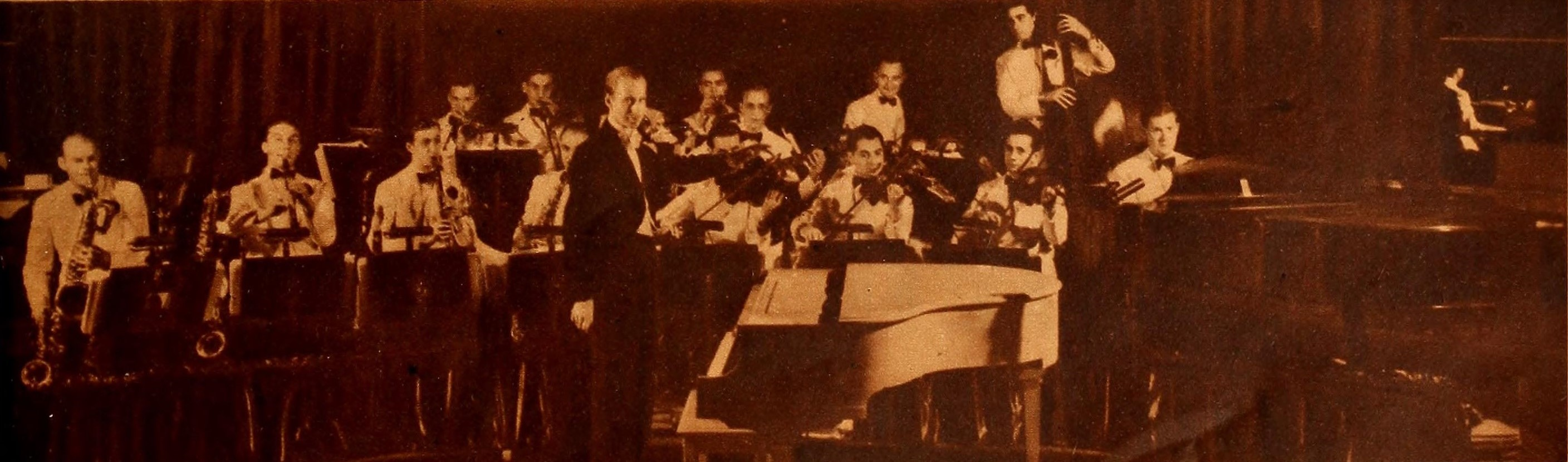 At the Rainbow Room, atop the RCA building in New York